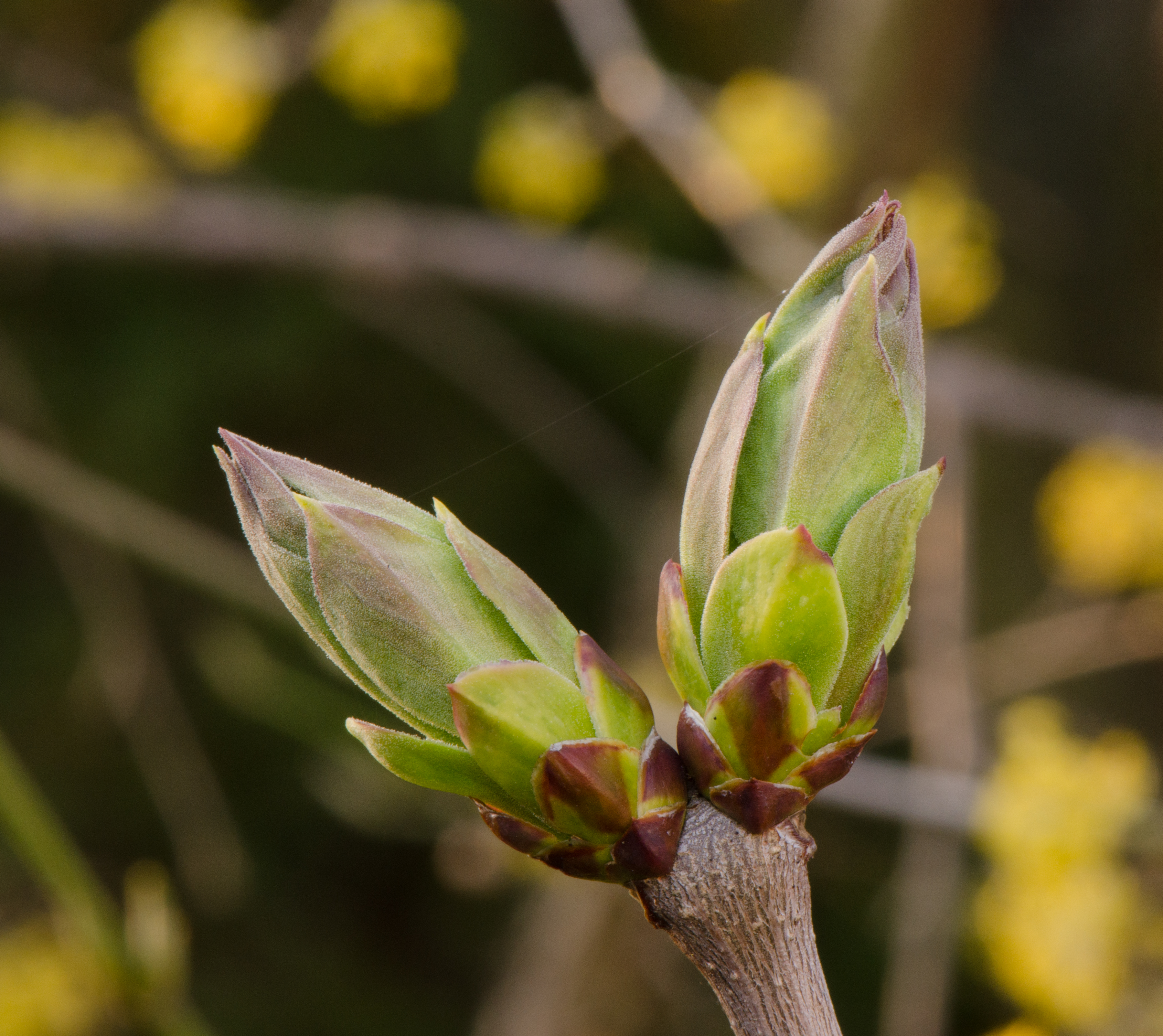 Common lilac bud (Syringa vulgaris Cultivars), Hesse, Germany.